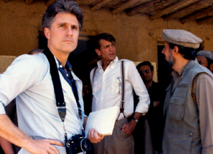 George Crile III, Charlie Wilson (Texas politician), with an unnamed ISI agent in the background, (person wearing the aviator glasses looking at the photo camera).